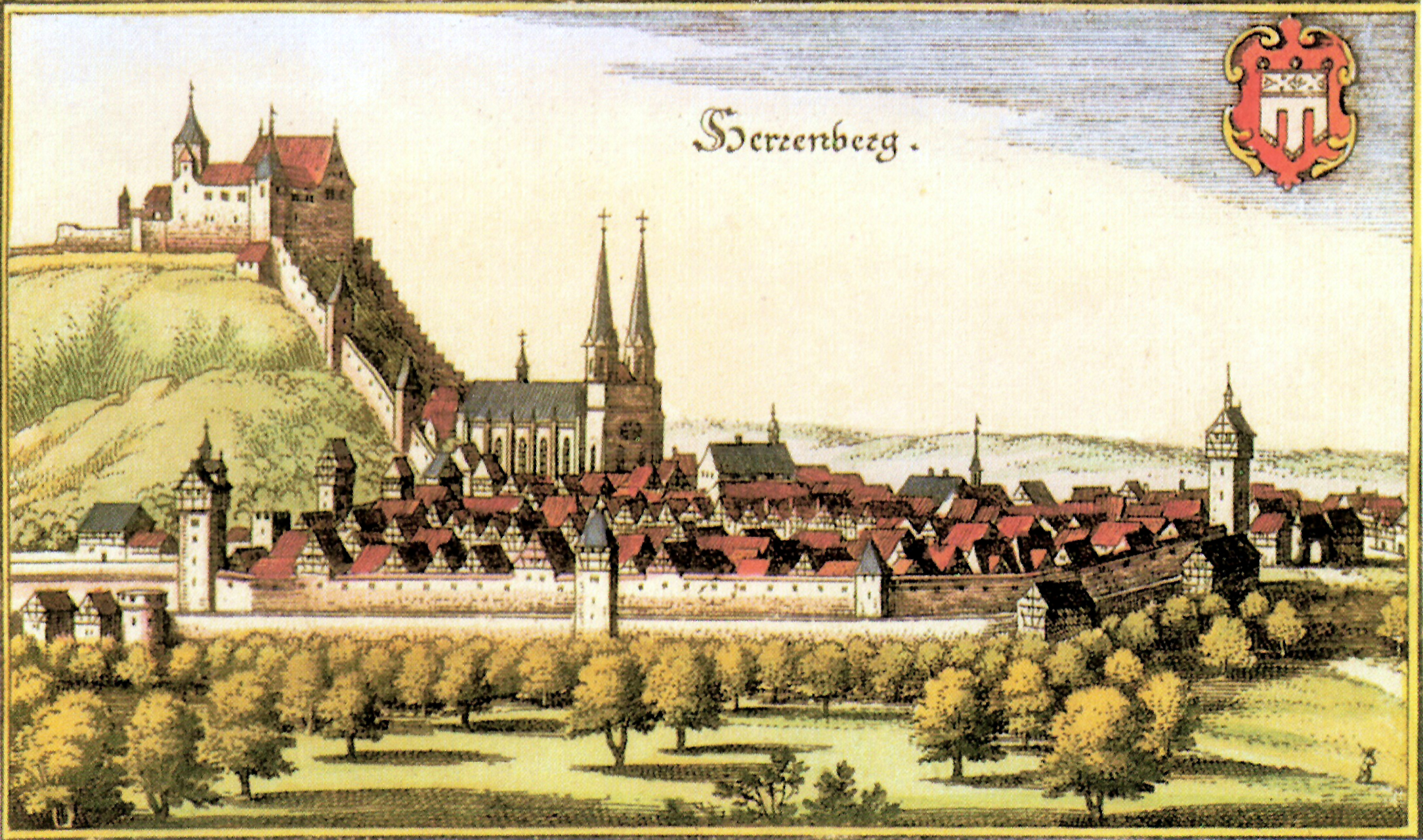 Herrenberg - excerpt from Topographia Sueviae (Schwaben)